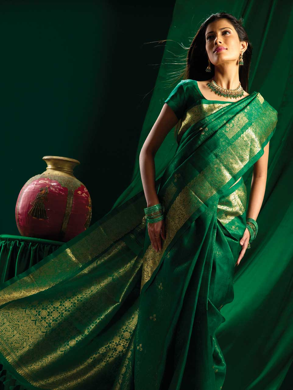 Indian Saree [Traditional dress]